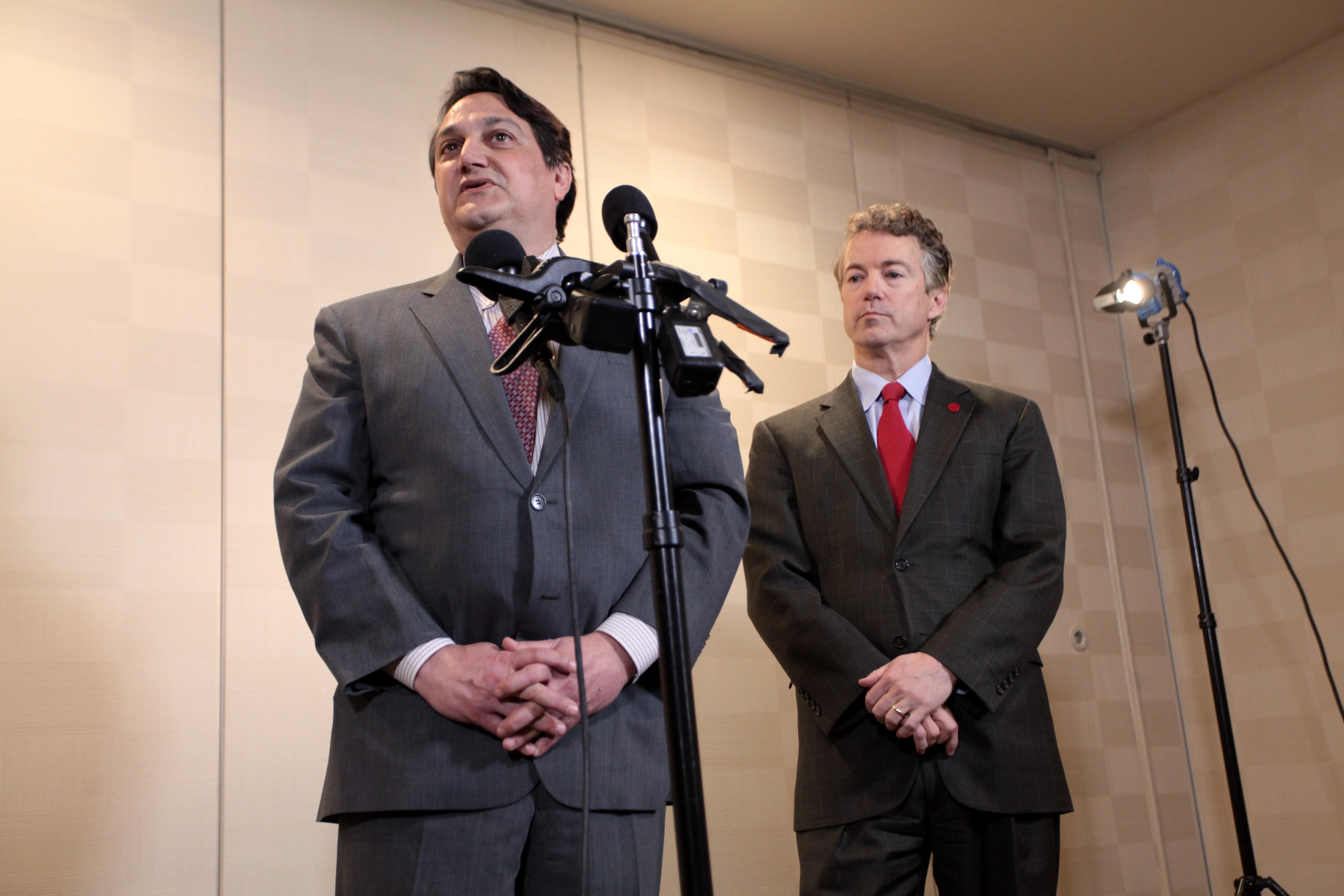 Steve Munisteri and Rand Paul speaking in Dallas, Texas.